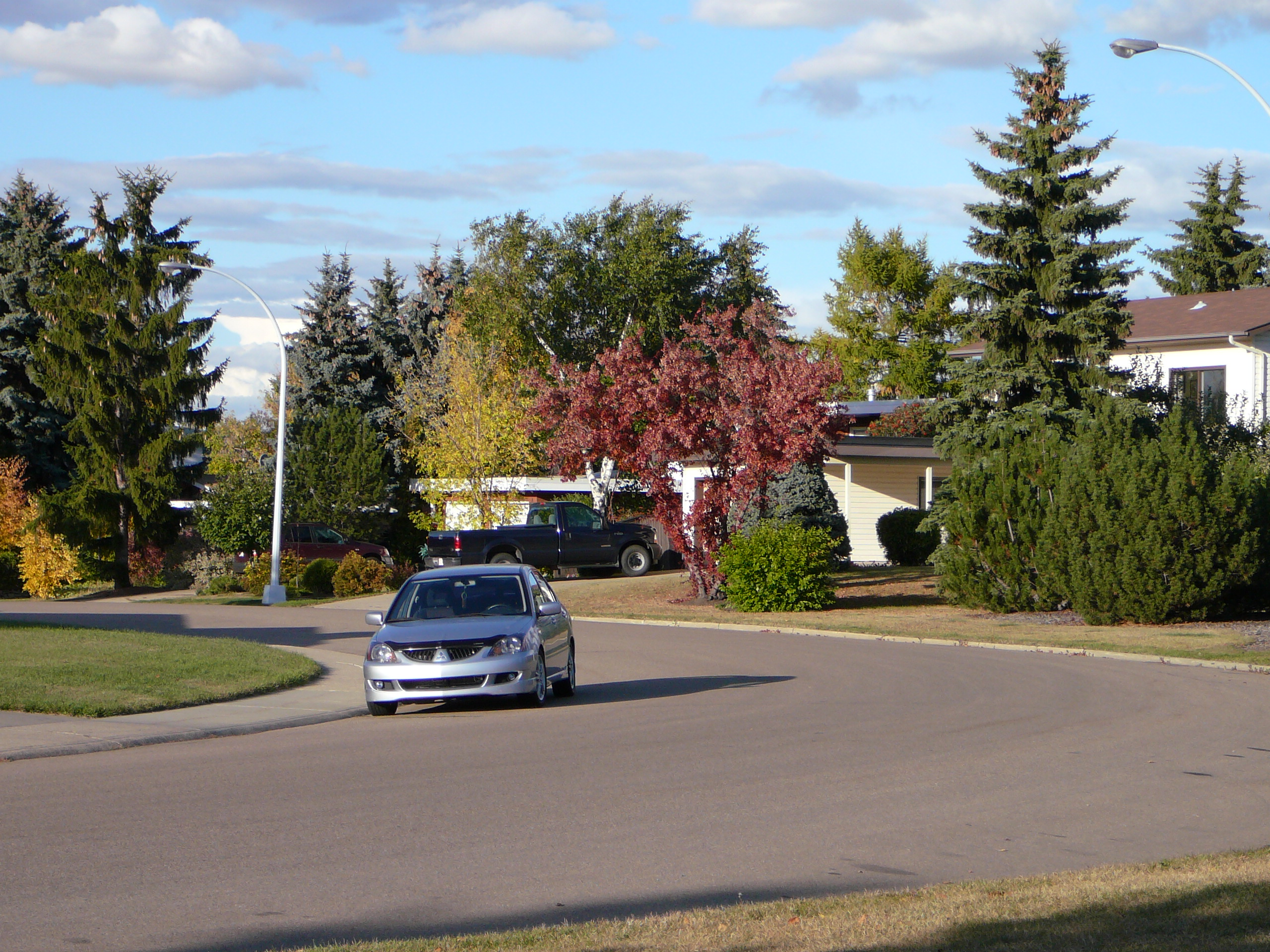 I took this picture myself on September 25, 2007. It is a residential street in Forest Heights near Wayne Gretzky Drive.